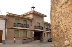 ayuntamiento